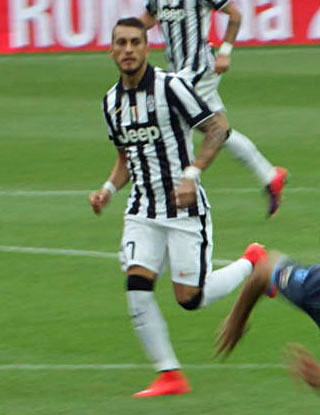 Torino, Juventus Stadium, 23 maggio 2015. Juventus FC vs SSC Napoli (3-1), 37ª giornata del campionato di Serie A 2014-15. Bianconeri's midfielder Roberto Pereyra.